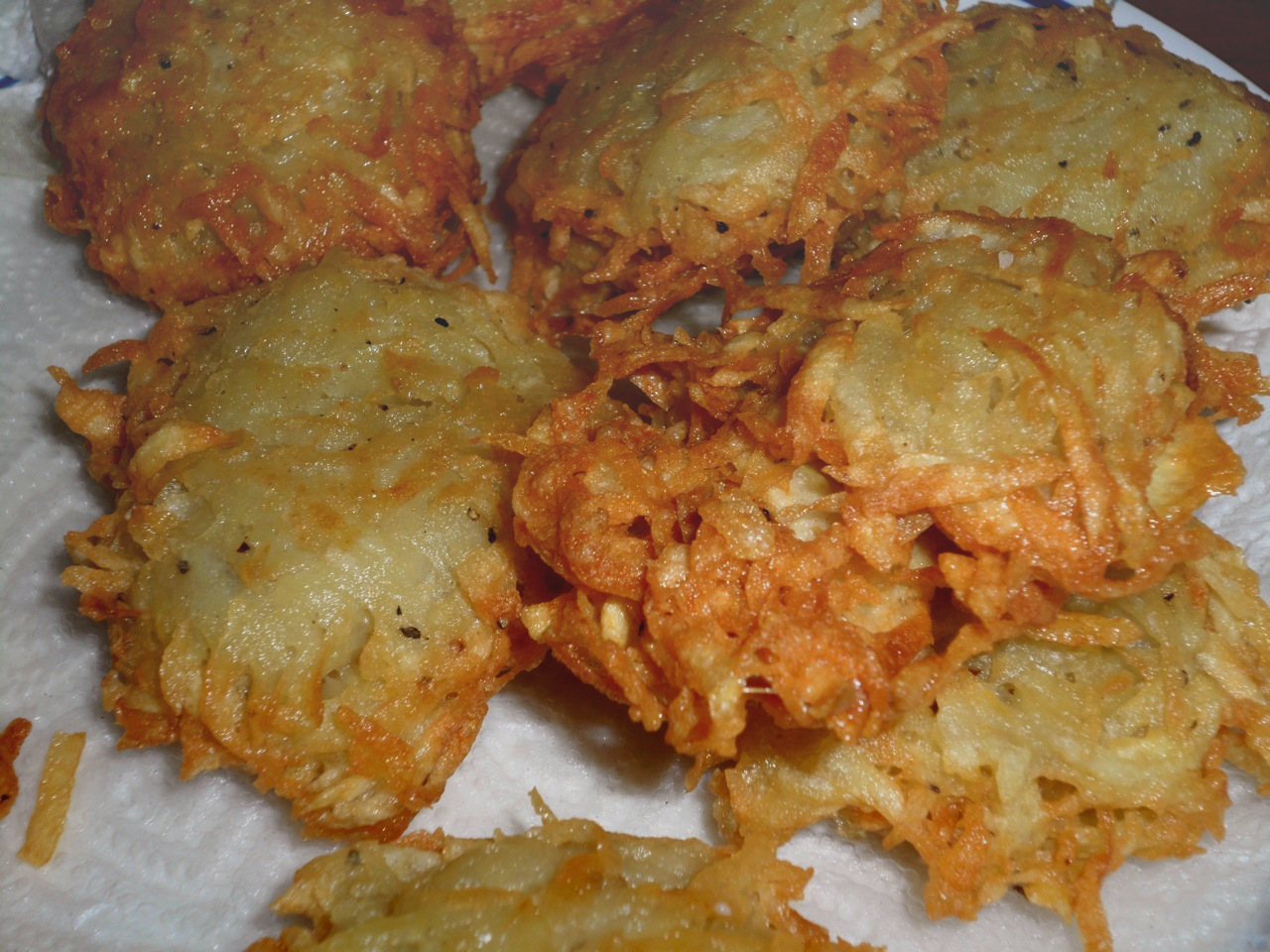 Levivot Hanukkah - potato pancakes